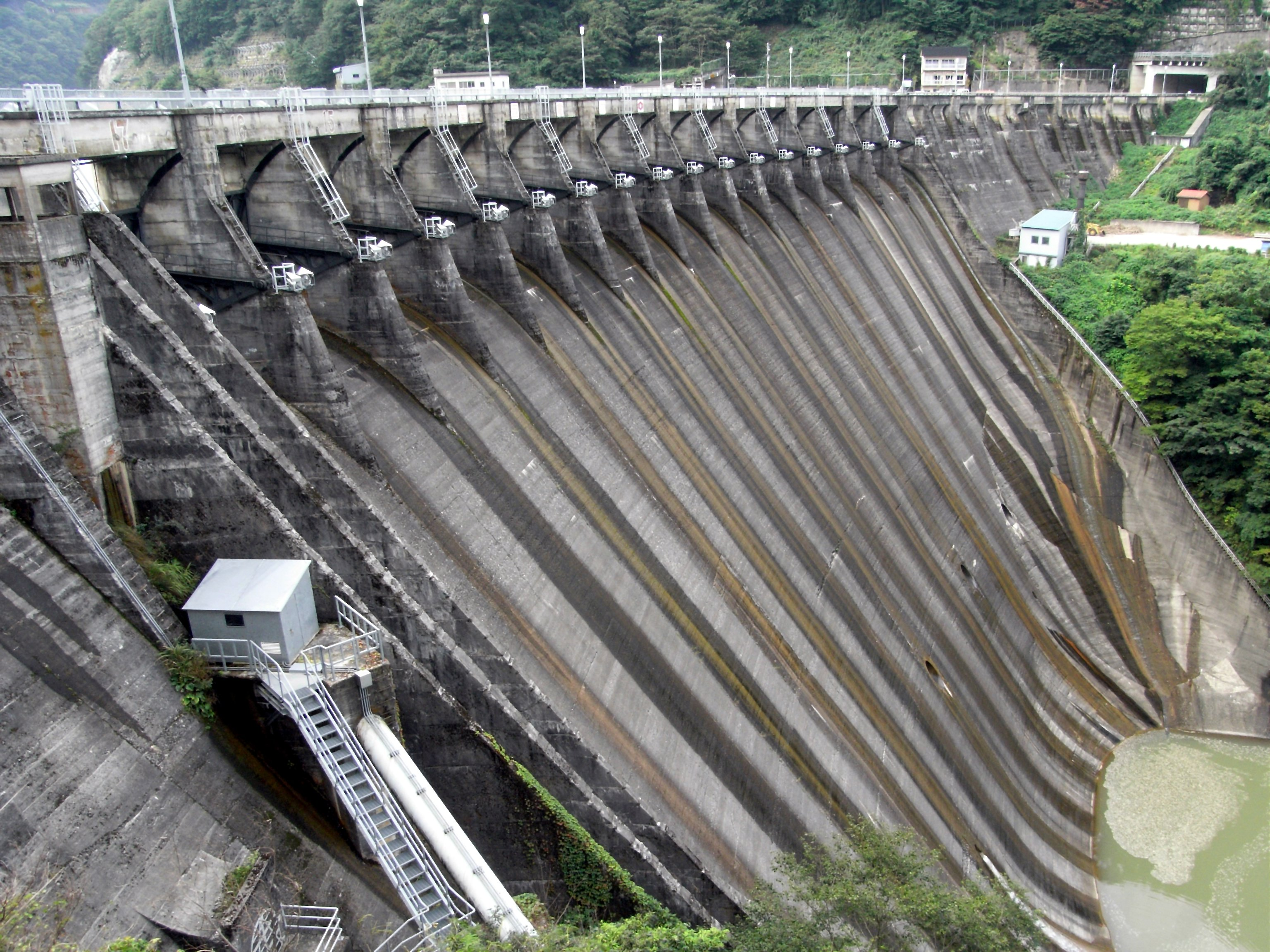 Komaki Dam(Shogawa river/Toyama Pref./Japan)